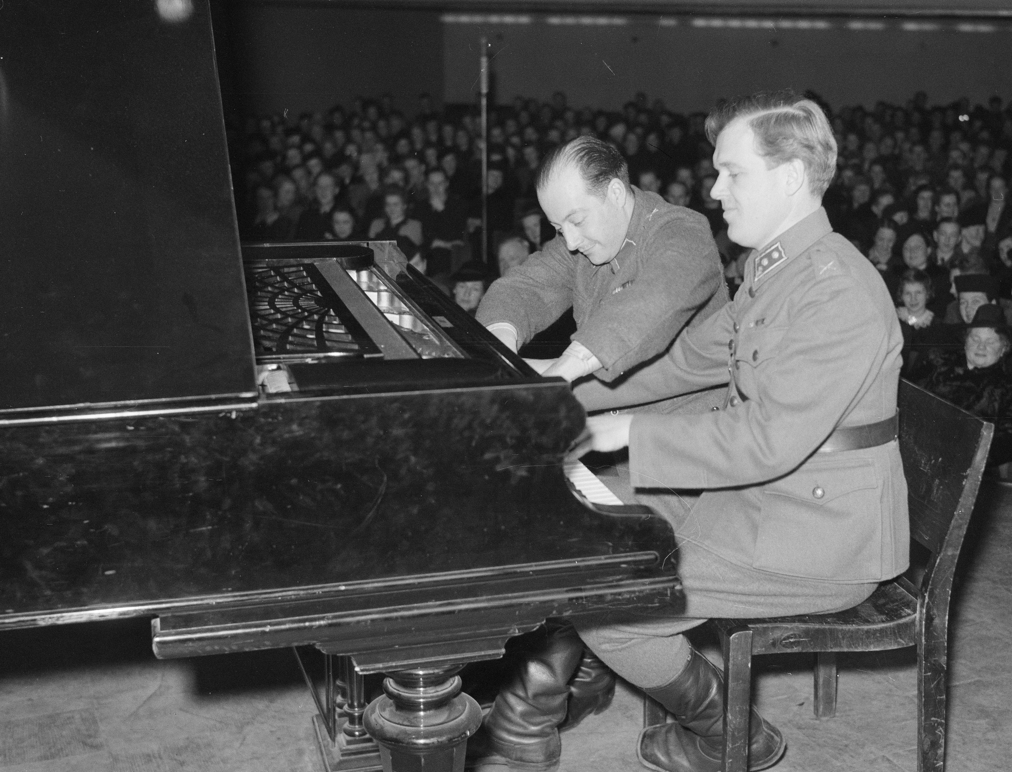 Photograph of the Finnish musicians George de Godzinsky and Nils-Erik Fougstedt in the Entertainment Troups during World War II. Photographed at a conservatoire hall.